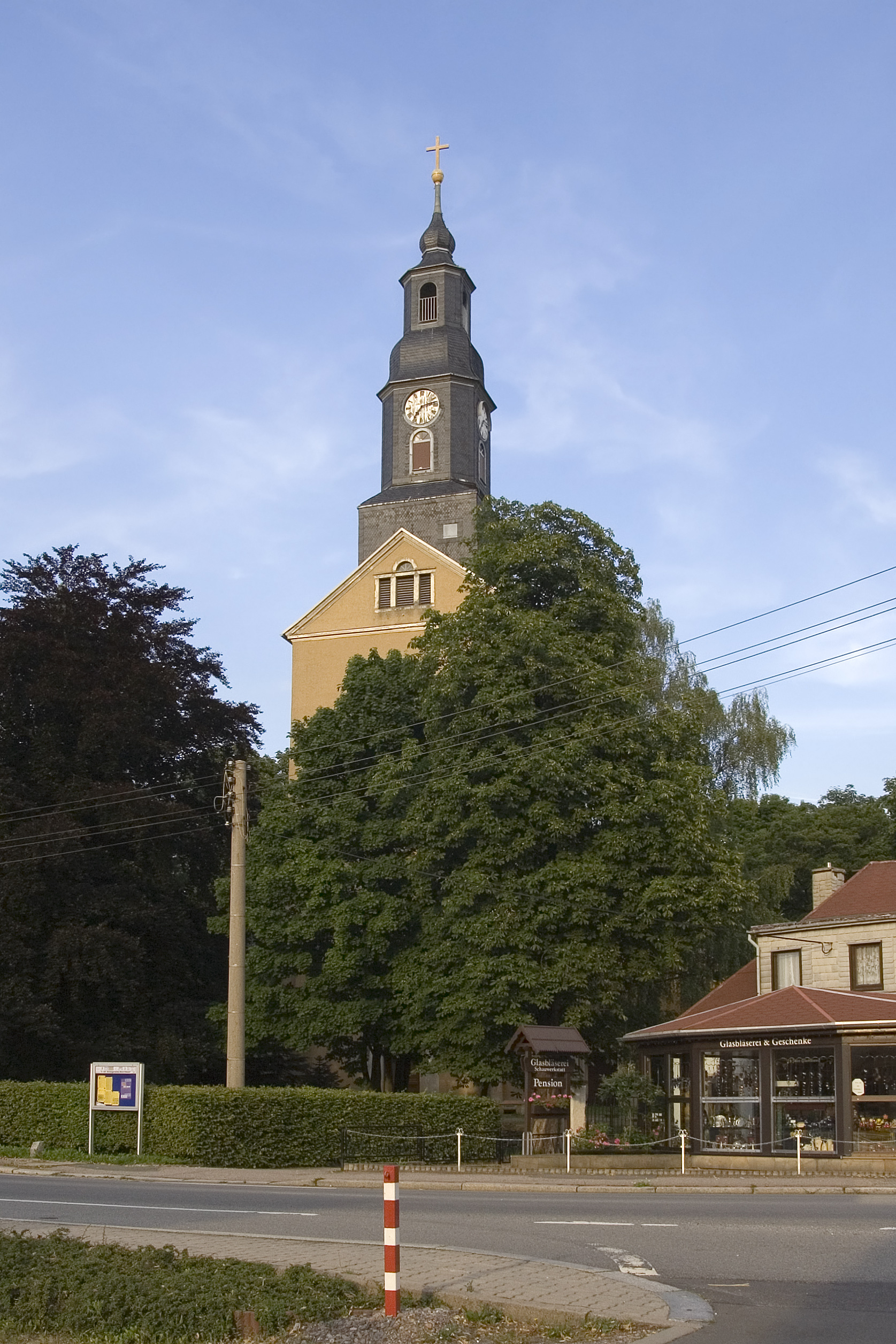 Brand-Erbisdorf, Saxony, church